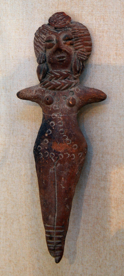 Figurine of woman, Indus Civilization (2500-1800 BC), terracotta, found in 1935 in Sari-Dheri or in Sulai-Dheri near Peshawar, Pakistan . Royal Art and History Museums (MRAH), jubilee Park, Brussels.